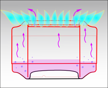 Pepsi can stove preheat 3 Illustrated with Sodipodi for Windows source: me Duk 19:34, 2 Nov 2004 (UTC)